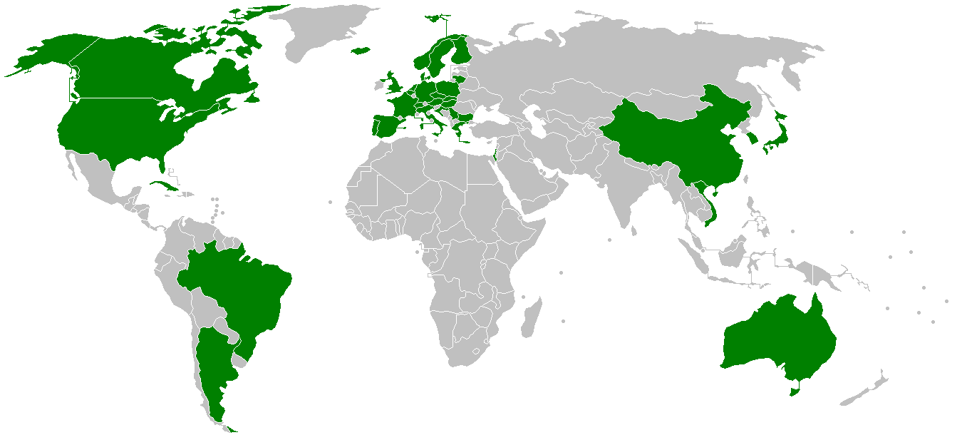 Countries which have hosted the World Congress of Esperanto, 1905–2019 (present-day countries assigned per city of conference)